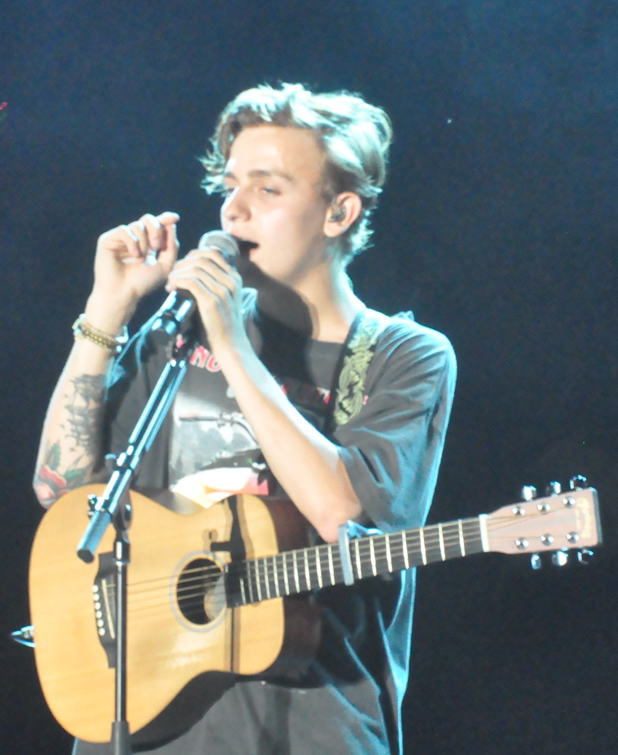 Singer/Songwriter Scott Helman performing in Toronto 2016